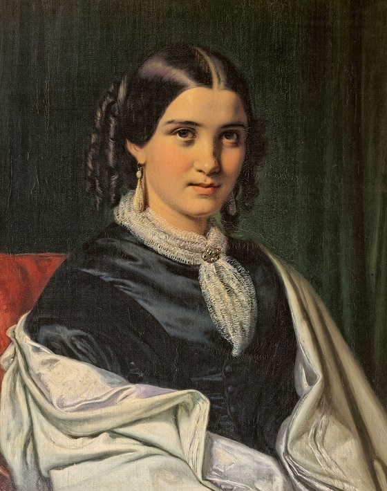 Portrait of Vilhelmine Heise, née Hage (1838-1912)